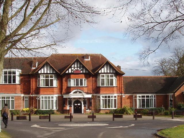 Passmore Edwards House, Chalfont Centre. Part of the National Society for Epilepsy colony, see 123736 for more information. John Passmore Edwards was a notable philanthropist, see a website about him, The page of this about the National Society for Epilepsy tells us: "In 1894 the Society purchased a farm in Chalfont St Peter, Buckinghamshire, establishing the Chalfont Centre for Epilepsy. Passmore Edwards contributing £5000. Passmore Edwards remained closely involved with the Society's work at Chalfont St Peter, funding the provision of five homes and an administration building within the next 6 years, and in recognition was made a Vice President of the Society."